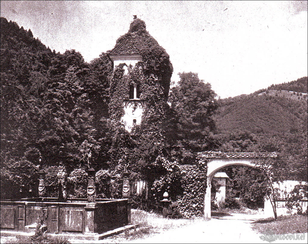 Polhov Gradec Manor